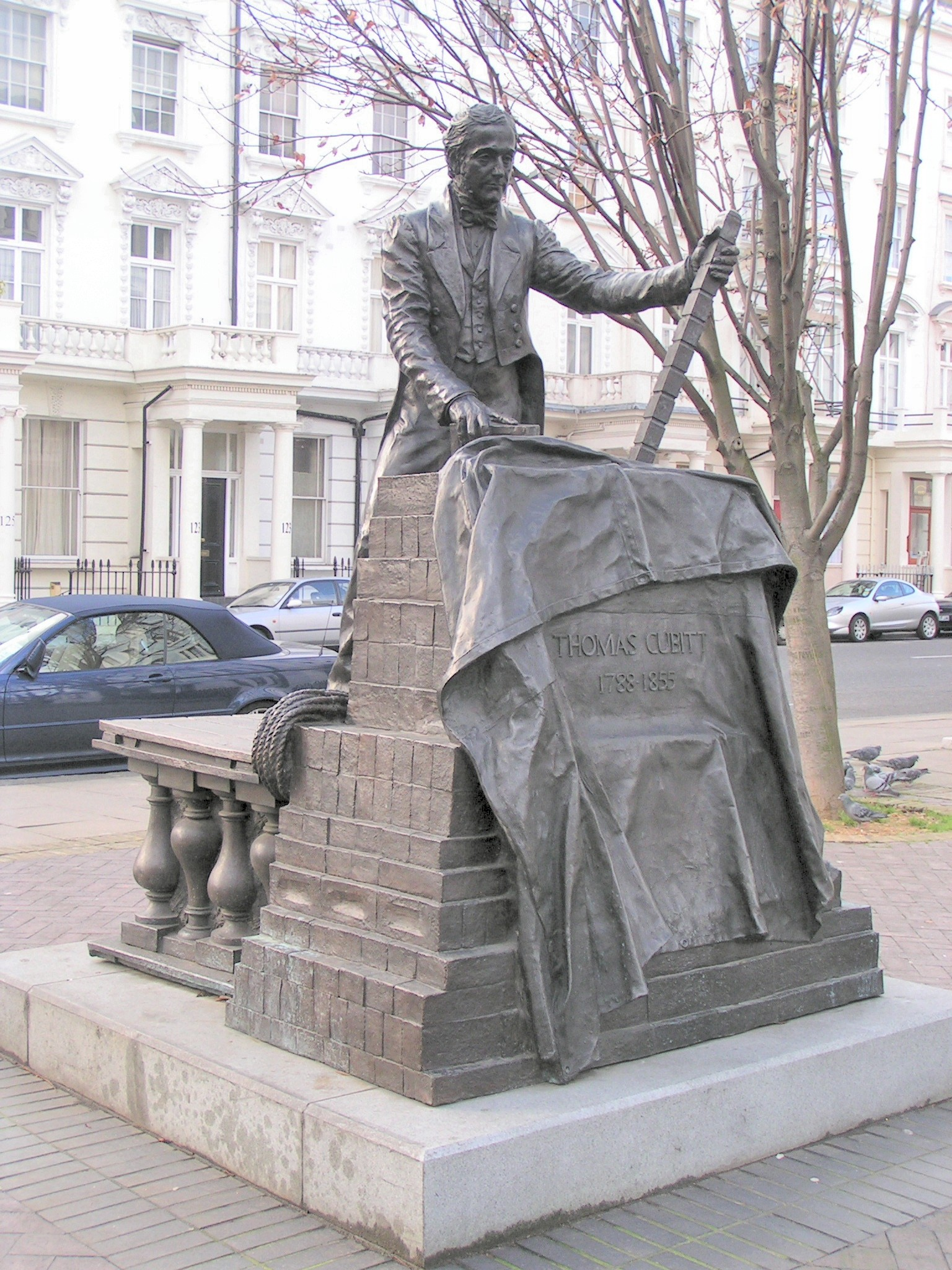 Statue of Thomas Cubitt by William Fawke, 1995. Denbigh Street, London. Photographed by James Gray, 8th February 2006.